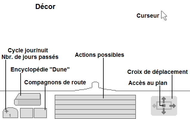 Interface of the video game Dune (1991)